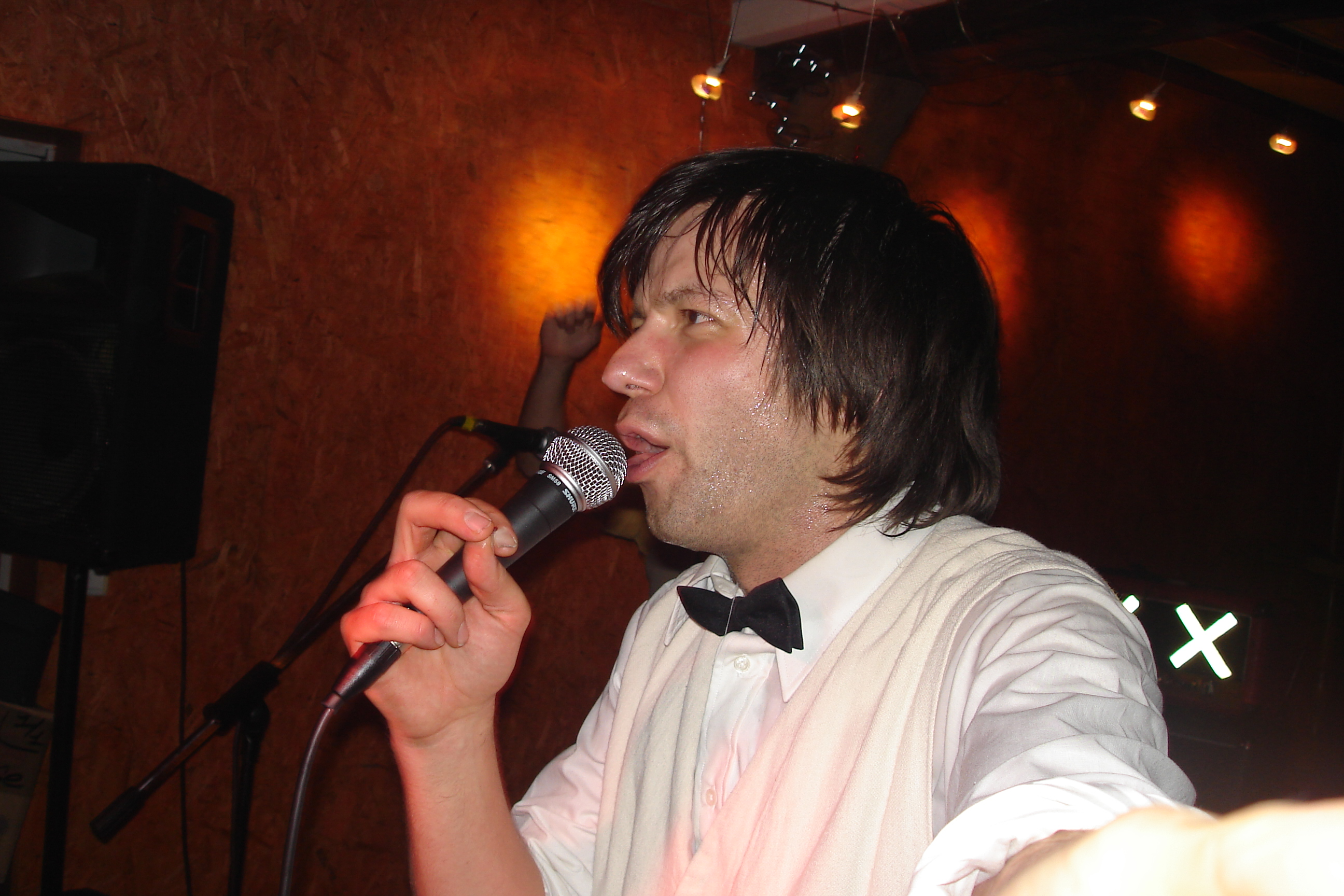 Mononc' Serge